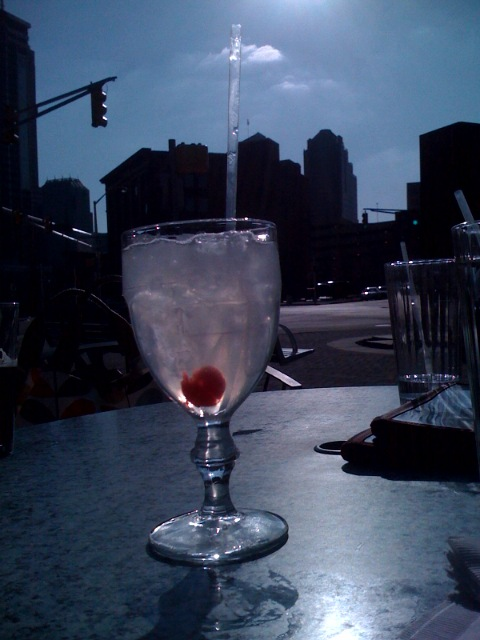 A classic cocktail combining carbonated water, sugar, lemon juice and gin